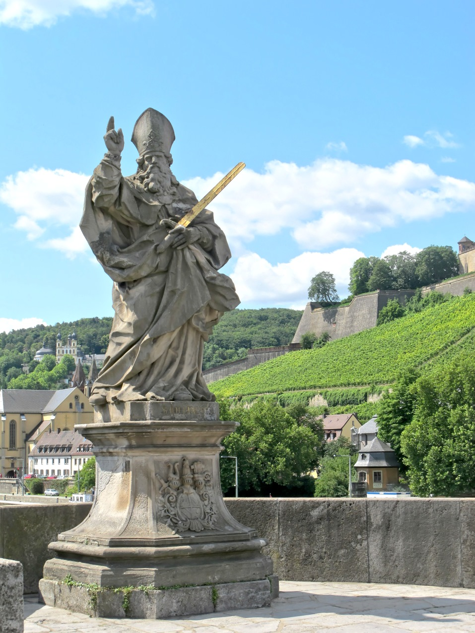 Würzburg, "Alte Mainbrücke" / Old Bridge above River Main, Stonesculpture St. Kilian